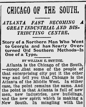 1906.04.28 San Jose Evening News clipping about "Chicago of the South" (Atlanta)